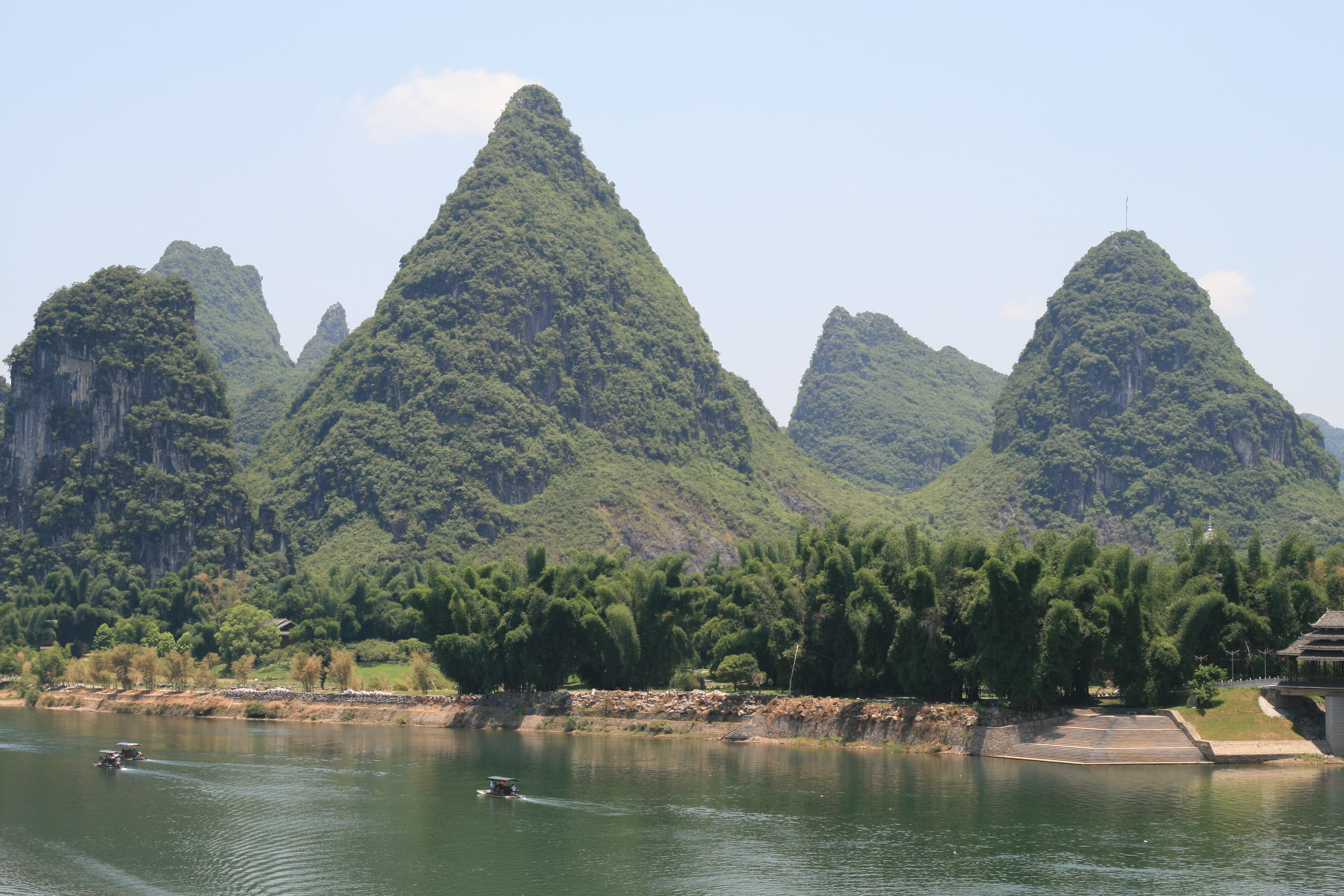 The characteristic karst peaks and bamboo forests of south west China, seen from a bridge across the Li river in Yangshuo county, the Guangxi province.